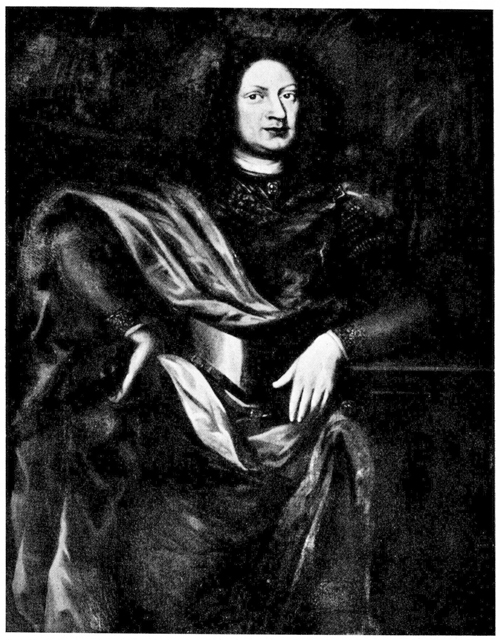 Swedish admiral Lorens Creutz (1615-1676)